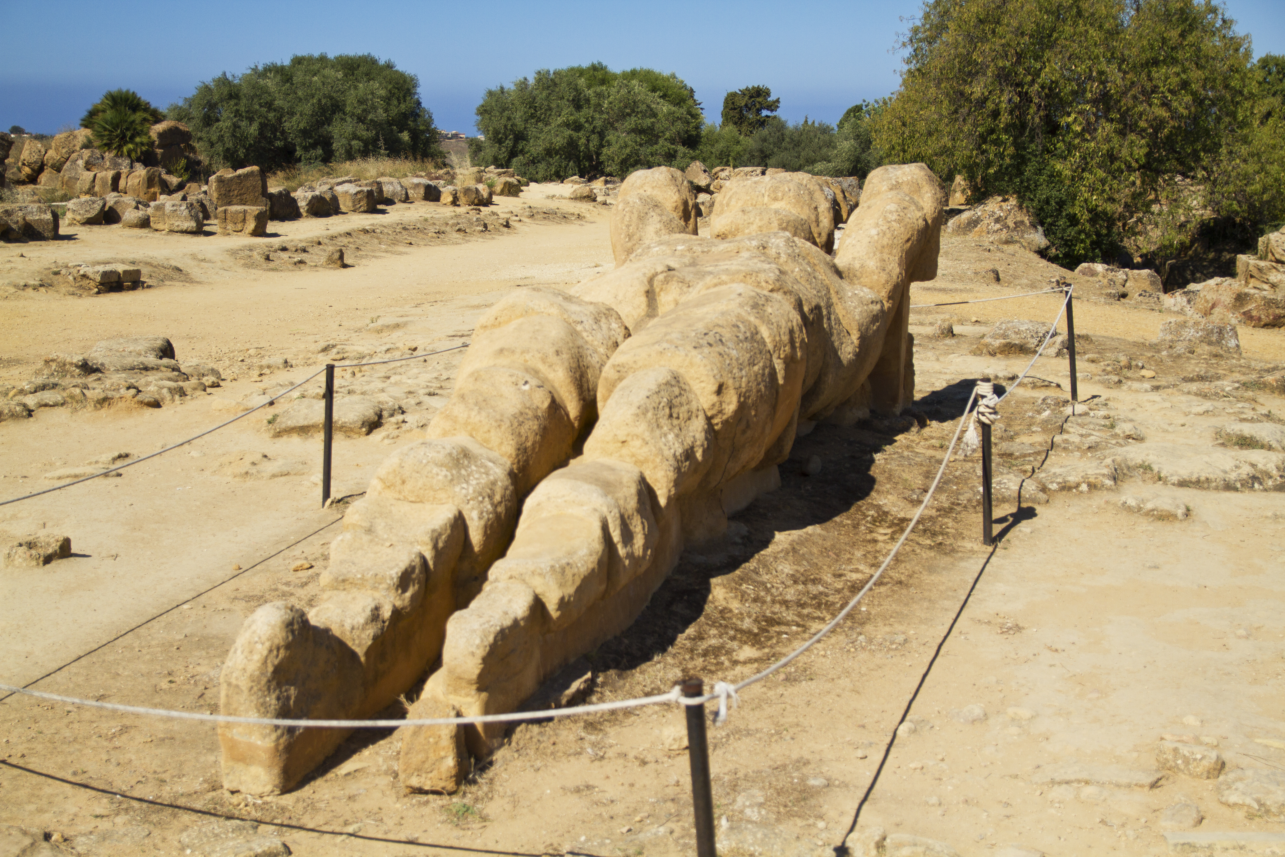 An Atlas at the Olympeion field, Valle dei Templi, Agrigento, Sicily, Italy